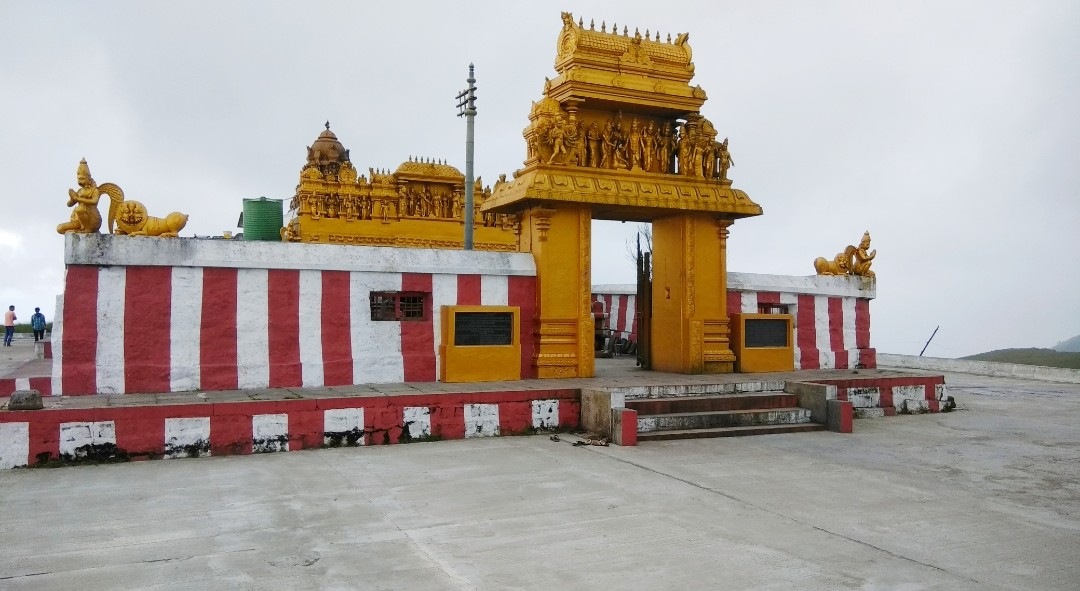 View of Gopal Swamy temple from the hill top